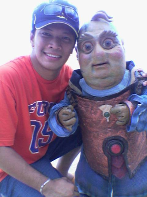 noel urbanothe voice behind elahe..also the voice of imaw,dilawan,ulla of zaido and kokey